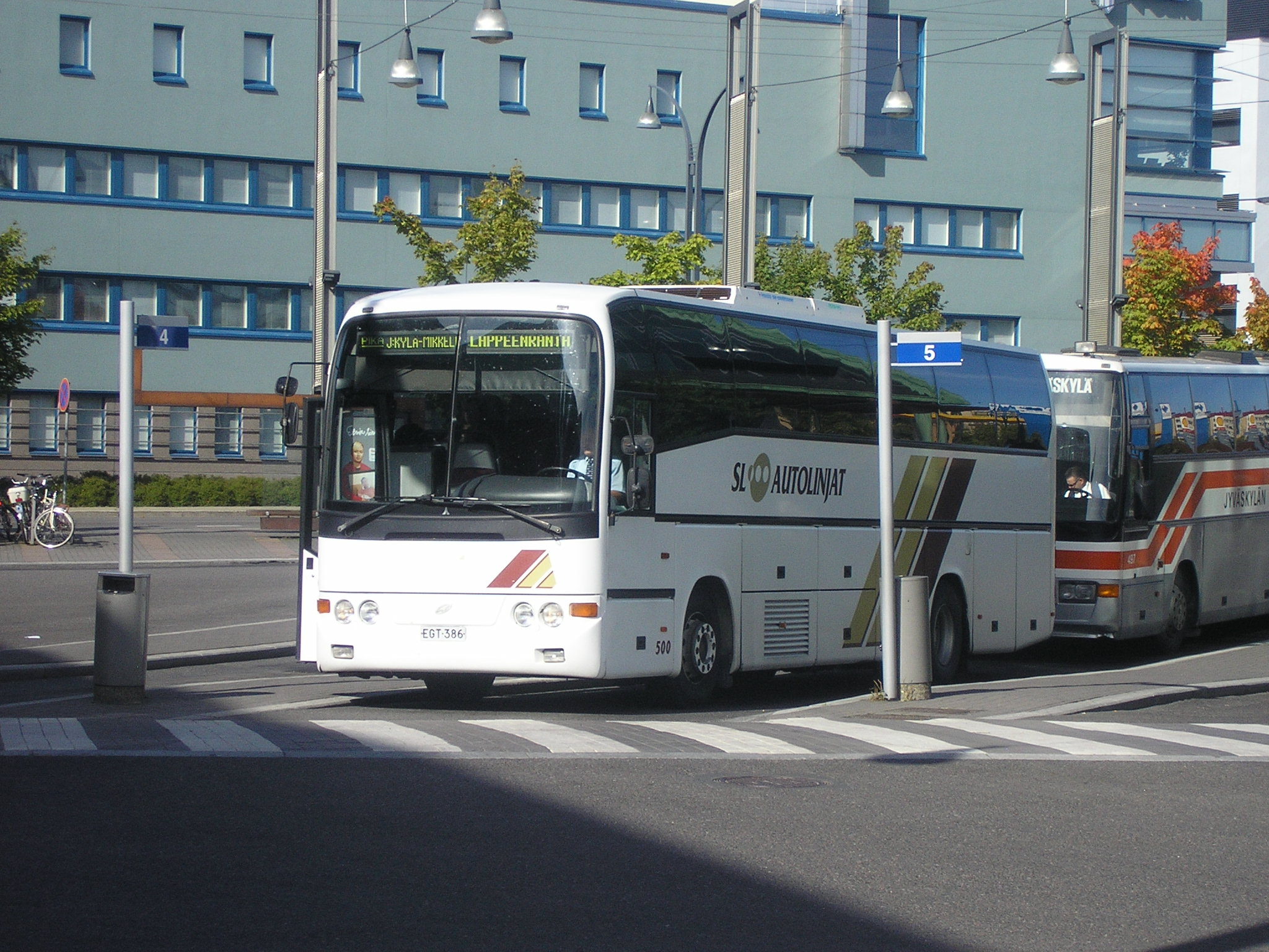 SL-Autolinjat Volvo B10M/Lahti 560 Eagle (no. 500, EGT-386) in Jyväskylä.